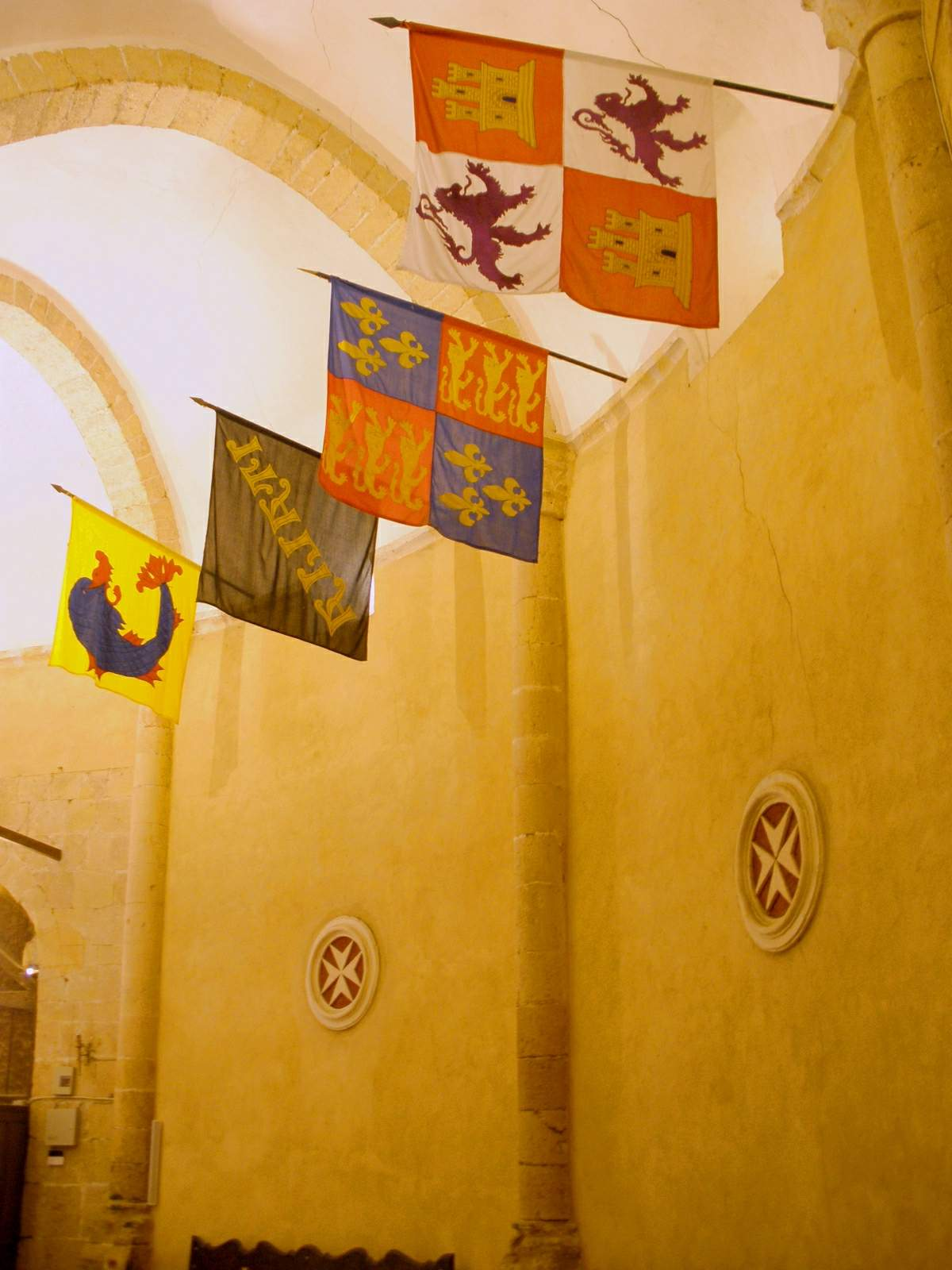 Church of the Vera Cruz (Zamarramala, Segovia)